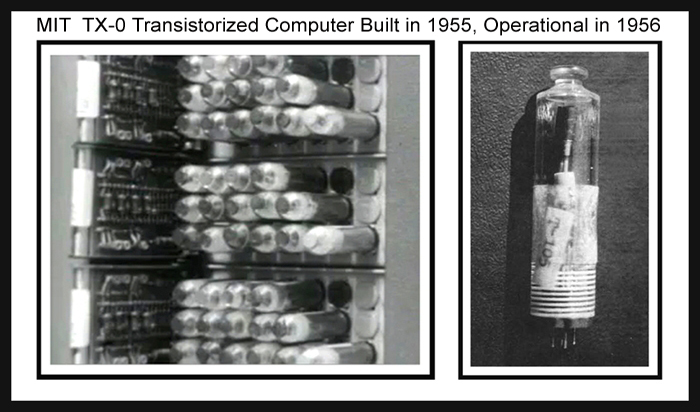 The MIT TX-0 Transistorized computer used 3600 Philco surface-barrier transistors in its circuitry. These transistors were encapsulated in plug-in vacuum tubes, which made it easier for testing, evaluation, and replacement.